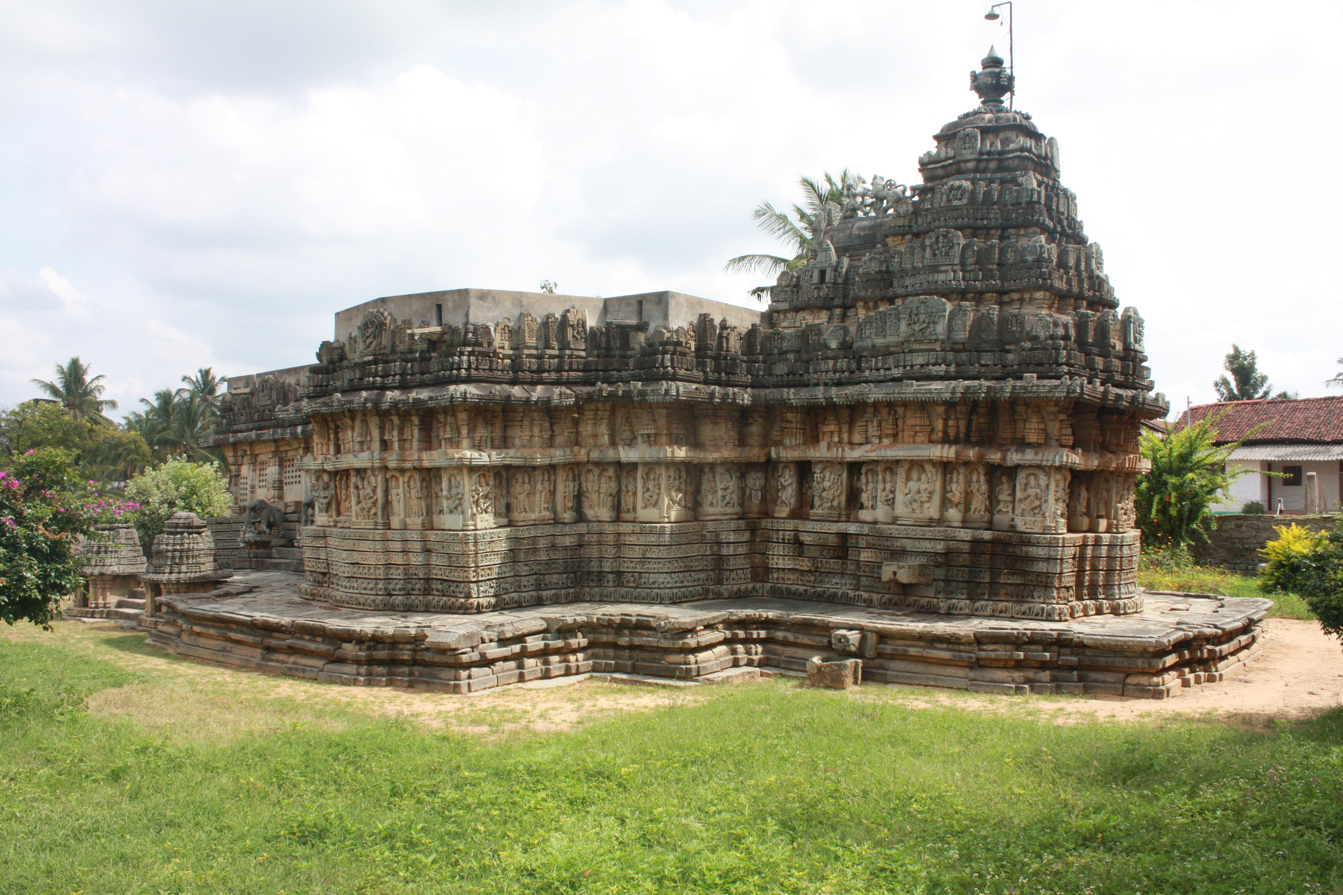 The photo of the Malikarjuna temple